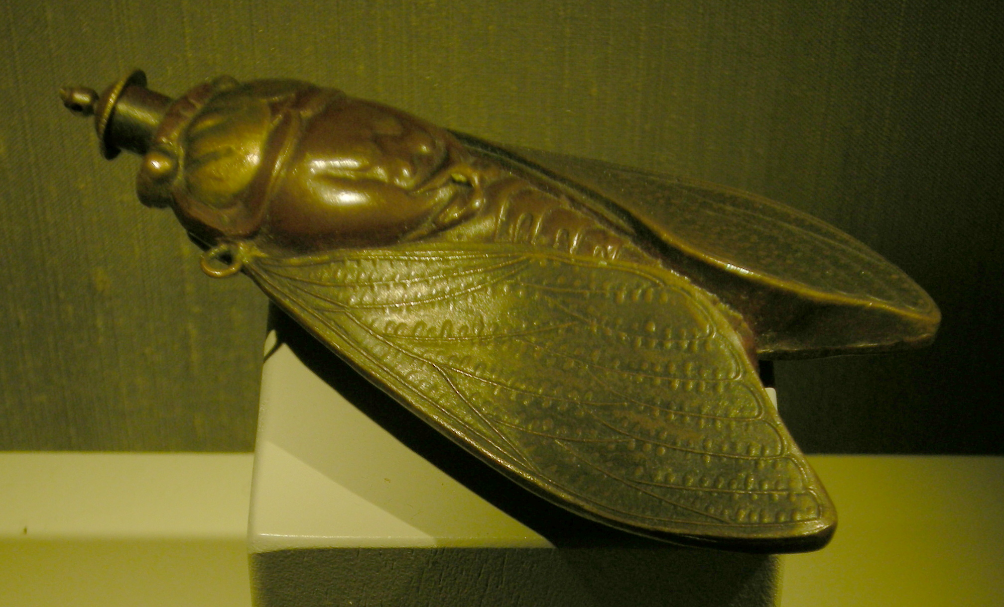 Japanese snuff bottle in the form of a cicada, circa 1900, Trammell and Margaret Crow Collection of Asian Art, a museum in Dallas, Texas.